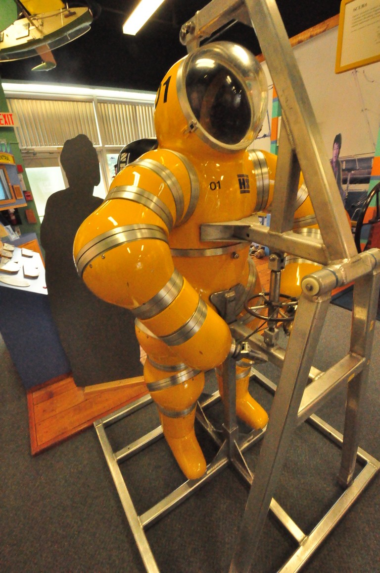 The Newtsuit atmospheric diving suit, shown at the Vancouver Maritime Museum, British Columbia